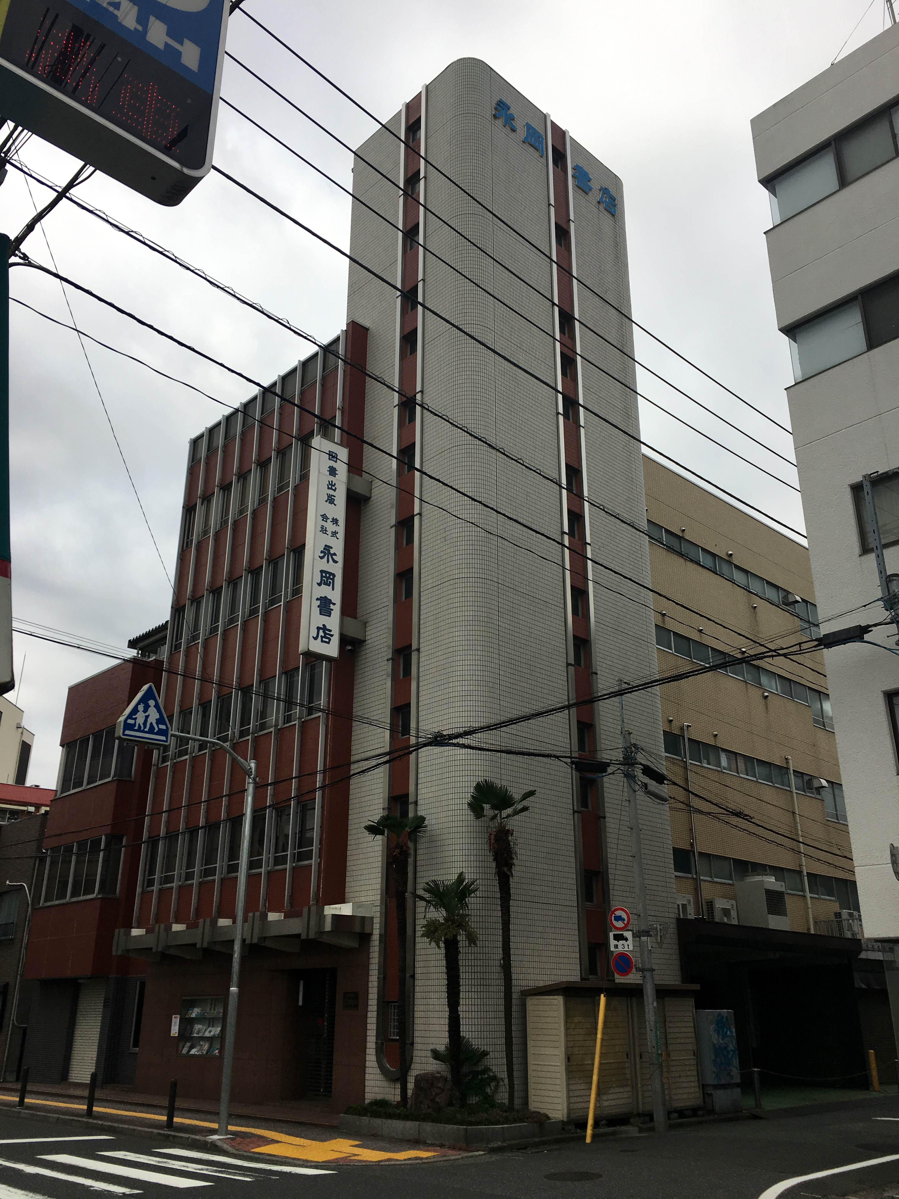 Nagaoka Shoten headquarters (Publishing company in Tokyo, Japan)